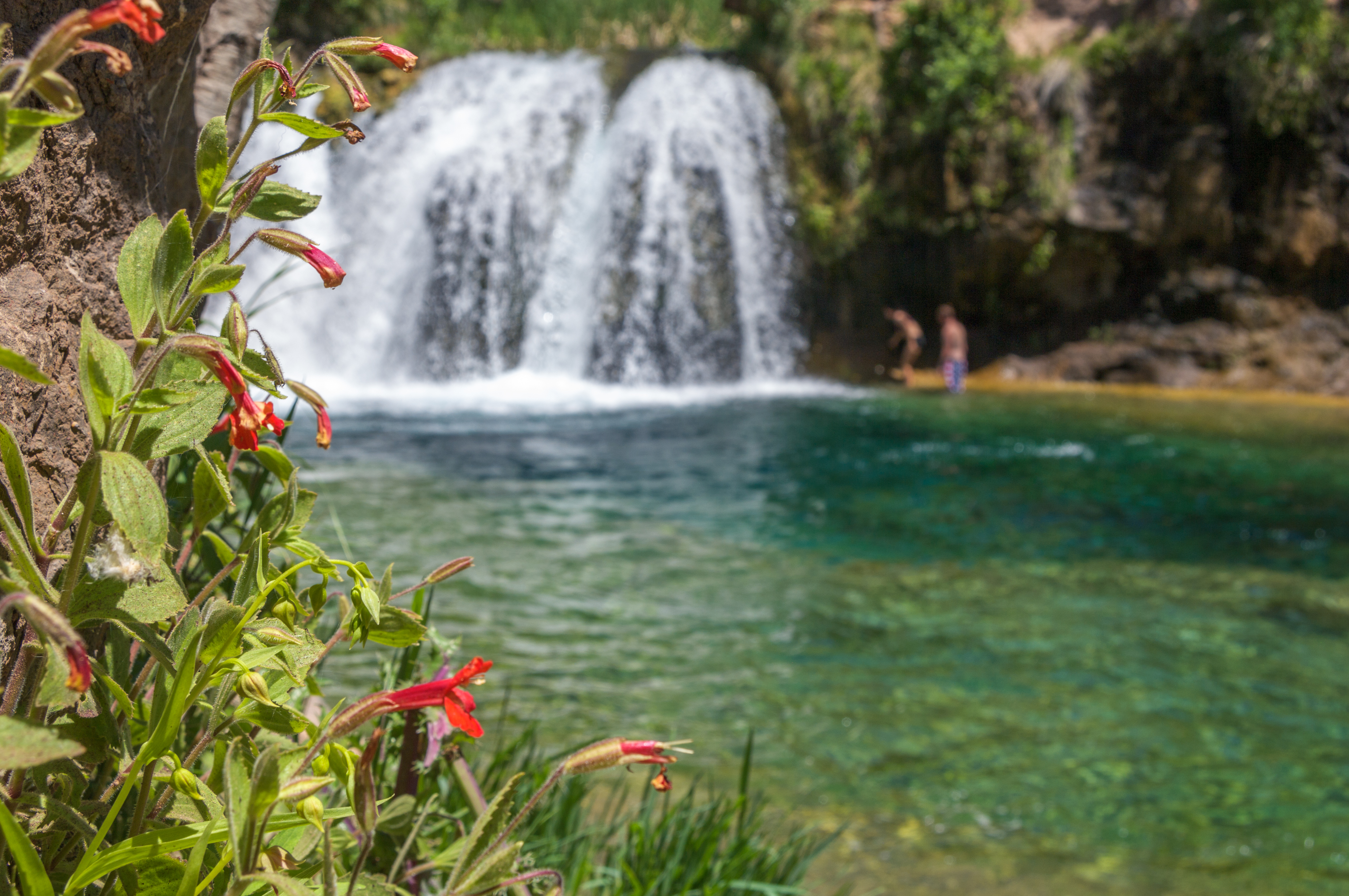 A large, natural waterfall on Fossil Creek is the destination of an easy, one mile hike on Waterfall Trail. A large, deep pool at the base of the fall is a popular swimming hole. Fossil Creek produces 20,000 gallons of water a minute from a series of springs at the bottom of a 1,600 foot deep canyon. This permanent water source has created a stunningly beautiful, green riparian zone rich with flora and fauna at the bottom of this arid canyon in Arizona's high desert. Travertine deposits encase whatever happens to fall into the streambed, forming the fossils for which the area is named. These deposits create deep pools along the length of the creek, providing opportunities to find more secluded swimming holes than the popular pool at the waterfall. Fossil Creek is one of two "Wild and Scenic" rivers in Arizona. This designation was achieved when the Irving power plant was decommissioned, and removal of flume and dam on the creek allowed the creek to flow free. Increasing popularity has led to the Coconino and Tonto National Forests to implement a parking permit reservation system in 2016. Reserved parking permits allow visitors to have a parking spot available in their chosen parking lot. Many visitors drive two or three hours to get to the creek. The final descent to the creek at the bottom of a canyon is on an extremely rough, rocky jeep road. In prior years, the area would often be closed to entry when it reached capacity, and potential visitors would be turned away after the long, difficult drive. Photo by Deborah Lee Soltesz, May 4, 2016. For trail and recreation information, and the